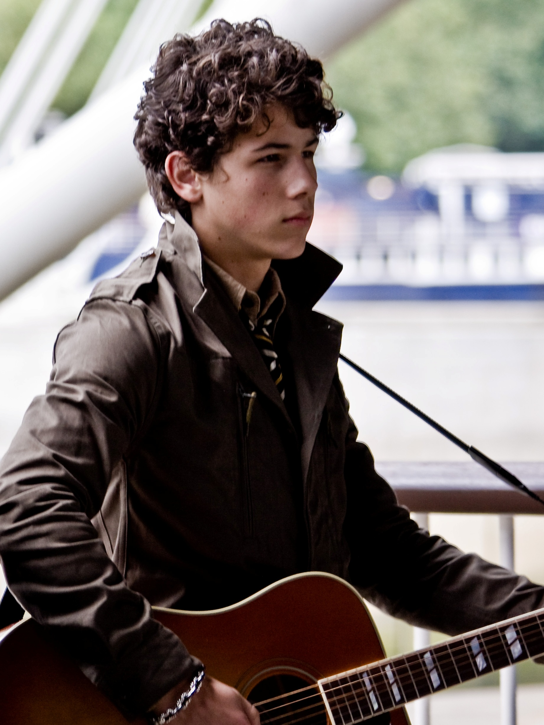 Nicholas Jerry Jonas Miller (Nick Jonass), London South Bank.